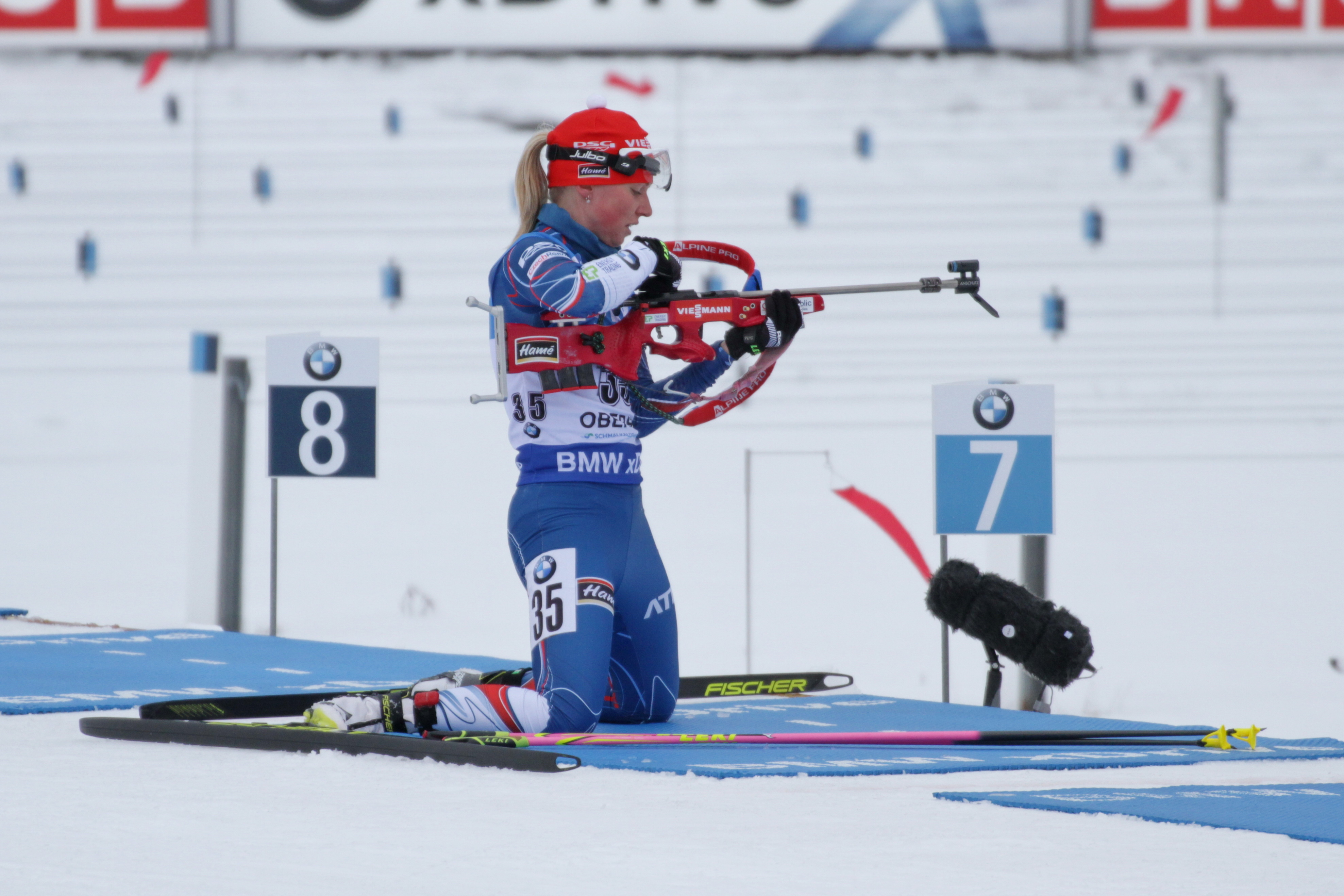 2018 Oberhof Biathlon World Cup - Sprint Women